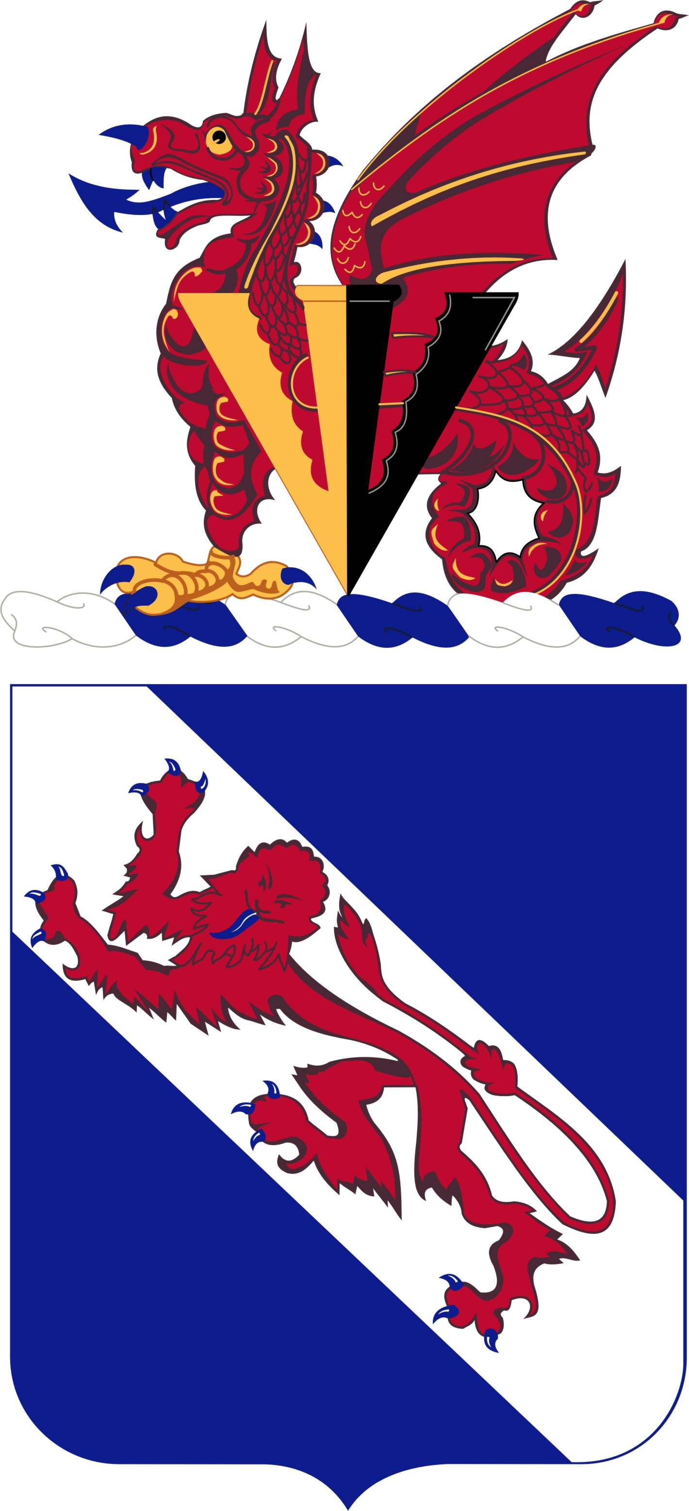 Description/Blazon Shield Azure, on a bend Argent a lion passant guardant Gules, armed and langued of the first. Crest On a wreath Argent and Azure a pheon with fourteen barbs, divided per pale Or and Sable in front of a wyvern statant Gules. Motto FURY FROM THE SKY. Symbolism Shield The two principal colors of the shield are those of the Infantry. The lion on the coat of arms is the same as the French leopard used in the arms of Normandy, and commemorates the organization's landing and campaign in the province. The silver bar, called a bend, is in honor of the organization's crossing of the Rhine River. Crest The 508th Infantry (Airborne) service in World War II is symbolized by the wyvern taken from the shoulder sleeve insignia of the 508th Airborne Regimental Combat Team in which they were the primary element. The color red alludes to their nickname "Red Devils" current in that period. The arrowhead divided in two colors, yellow and black, refers to their two assault landings, Normandy and the Rhineland, and the fourteen notches of the arrowhead allude to the Regiment's fourteen decorations. Background The coat of arms was originally approved for the 508th Airborne Infantry Regiment on 4 September 1951. It was amended to correct the wording of the blazonry on 26 November 1951. The coat of arms was redesignated for the 508th Infantry Regiment on 3 December 1962. It was amended to add a crest on 23 September 1966.